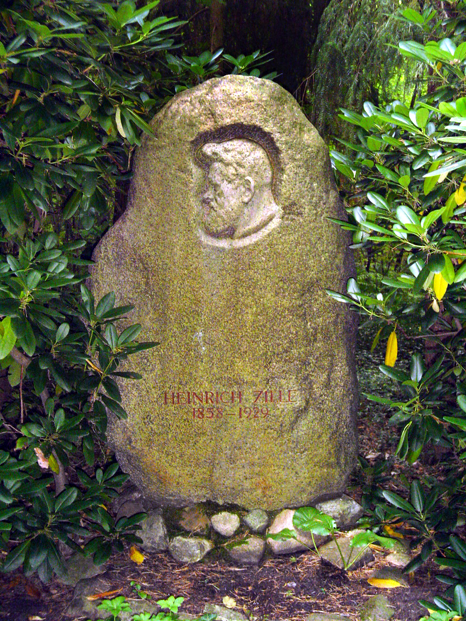 Südwestkirchhof Stahnsdorf near Berlin, Germany